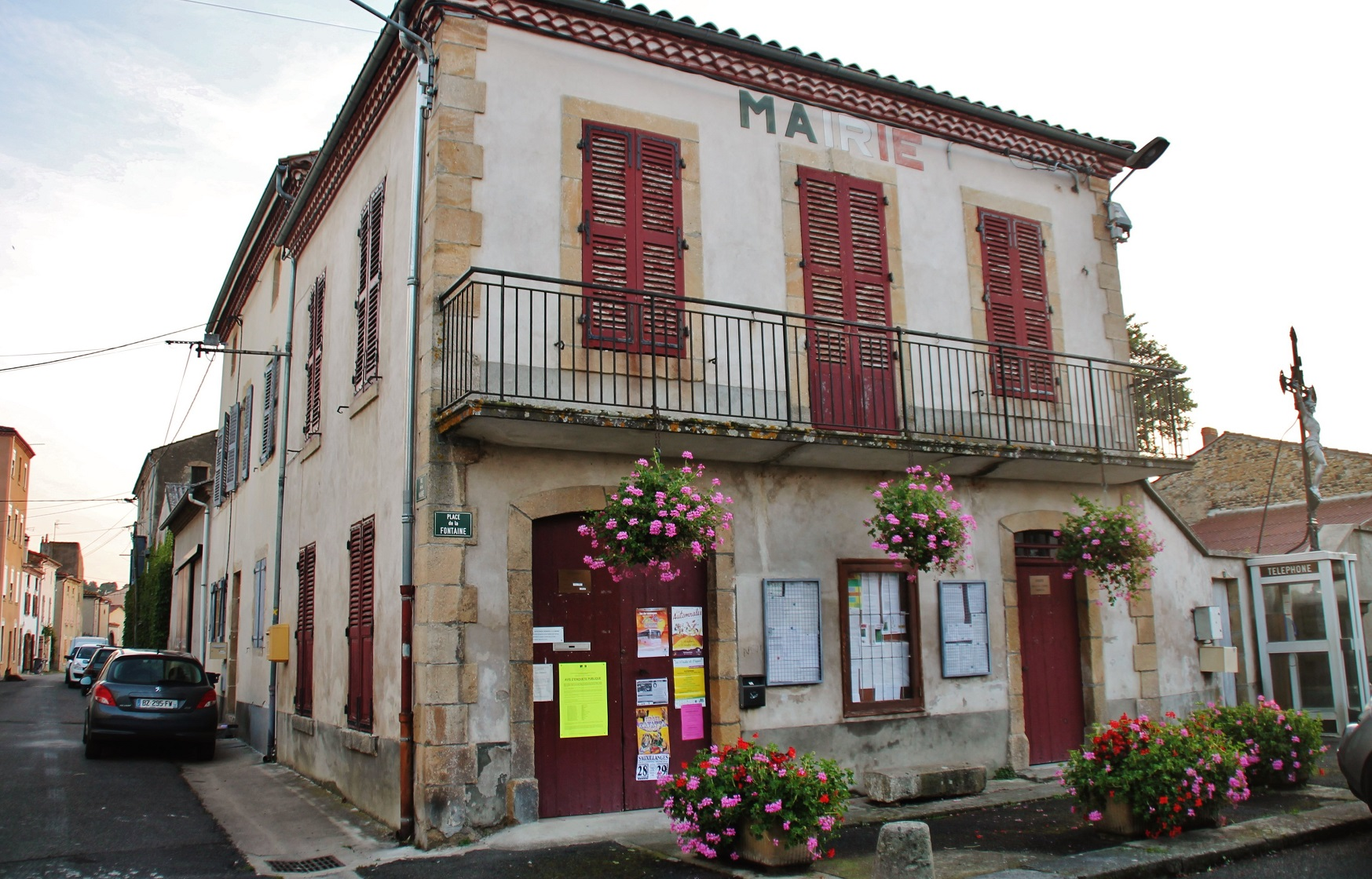 La Mairie